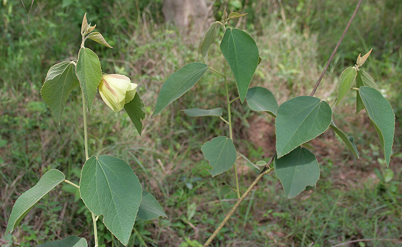 Decaschistia crotonifolia at Talakona forest, in Chittoor District of Andhra Pradesh, India.